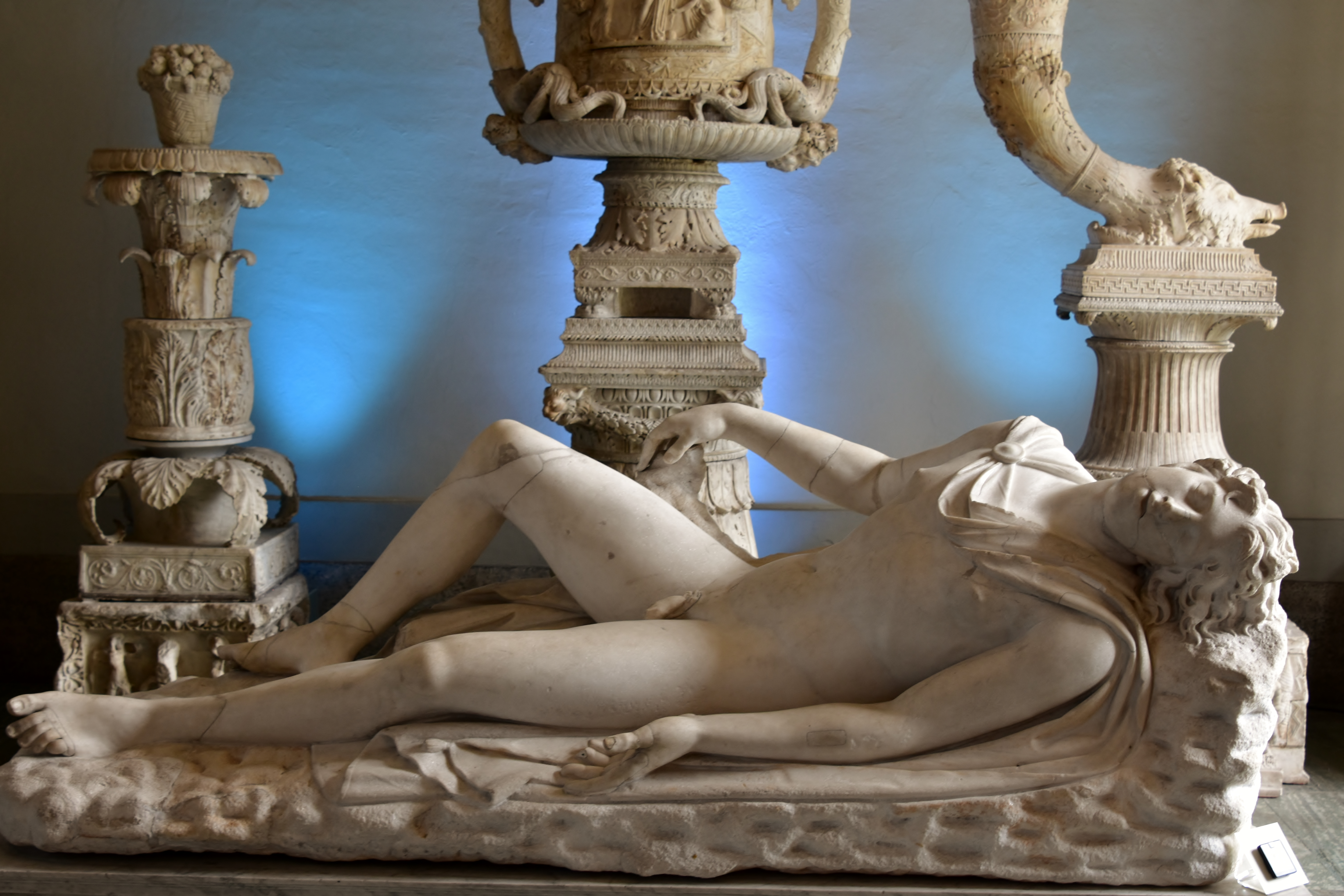 Gustav III's Museum of Antiquities, Stockholm (11)